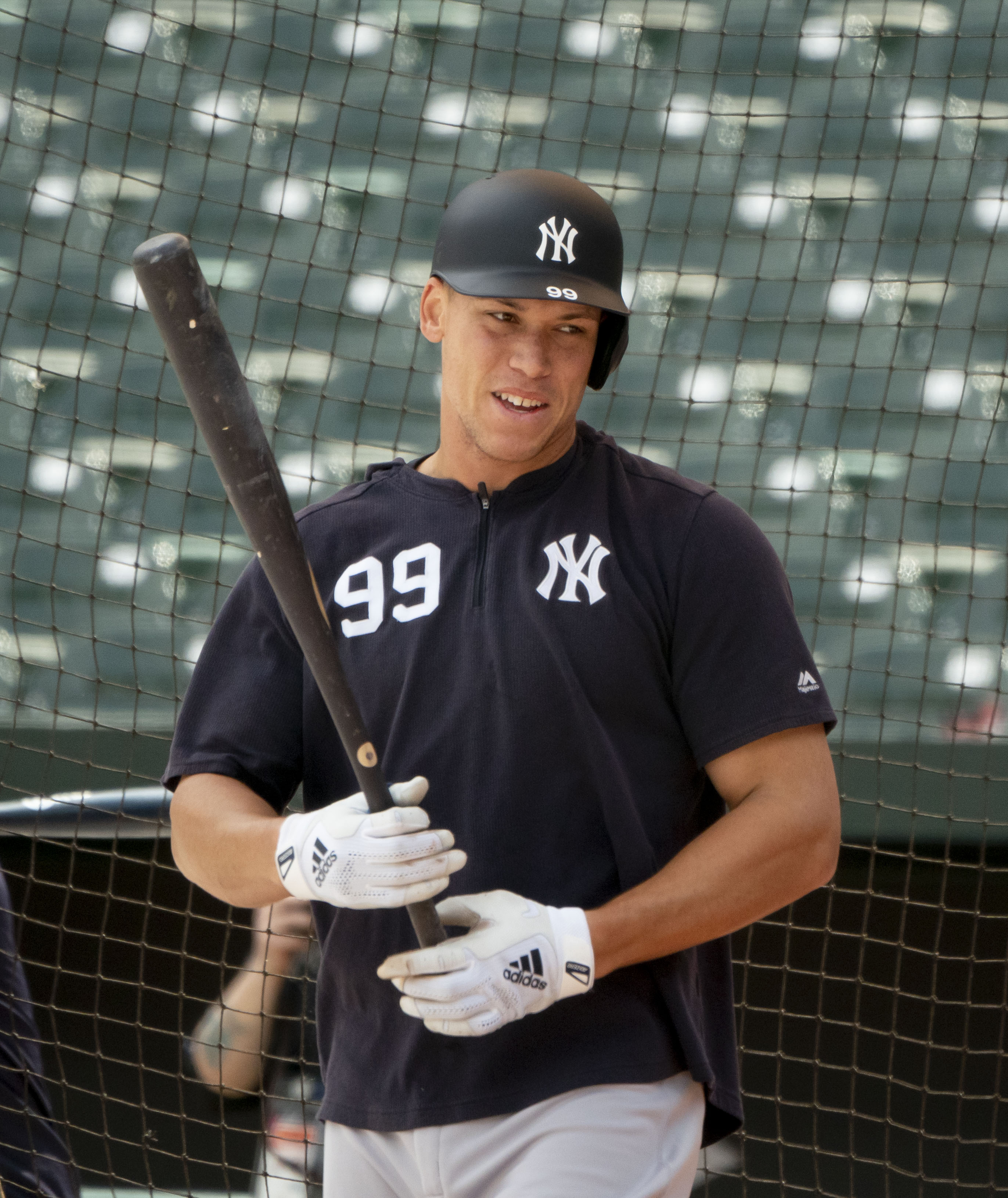 New York Yankees outfielder Aaron Judge during batting practice prior to a game against the Baltimore Orioles at Oriole Park at Camden Yards in Baltimore, Maryland, on April 4, 2019